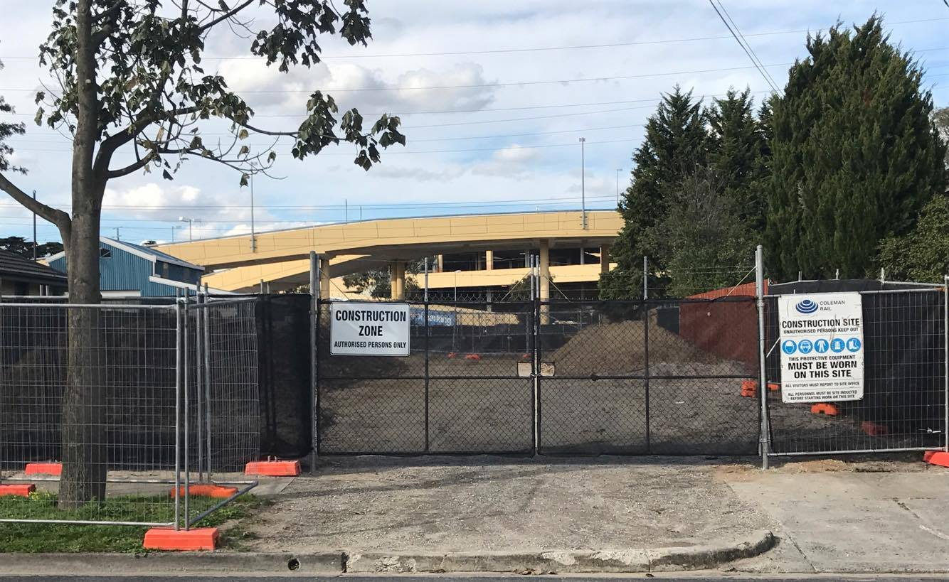 The (proposed) rear entrance for the Southland railway station on Tulip Grove, where ground work and construction is taking place, in September 2016